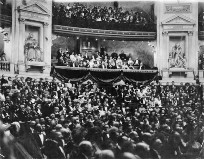 "Hommage national" to Gabriel Fauré at the Sorbonne, in the presence of President Alexandre Millerand, 1922.